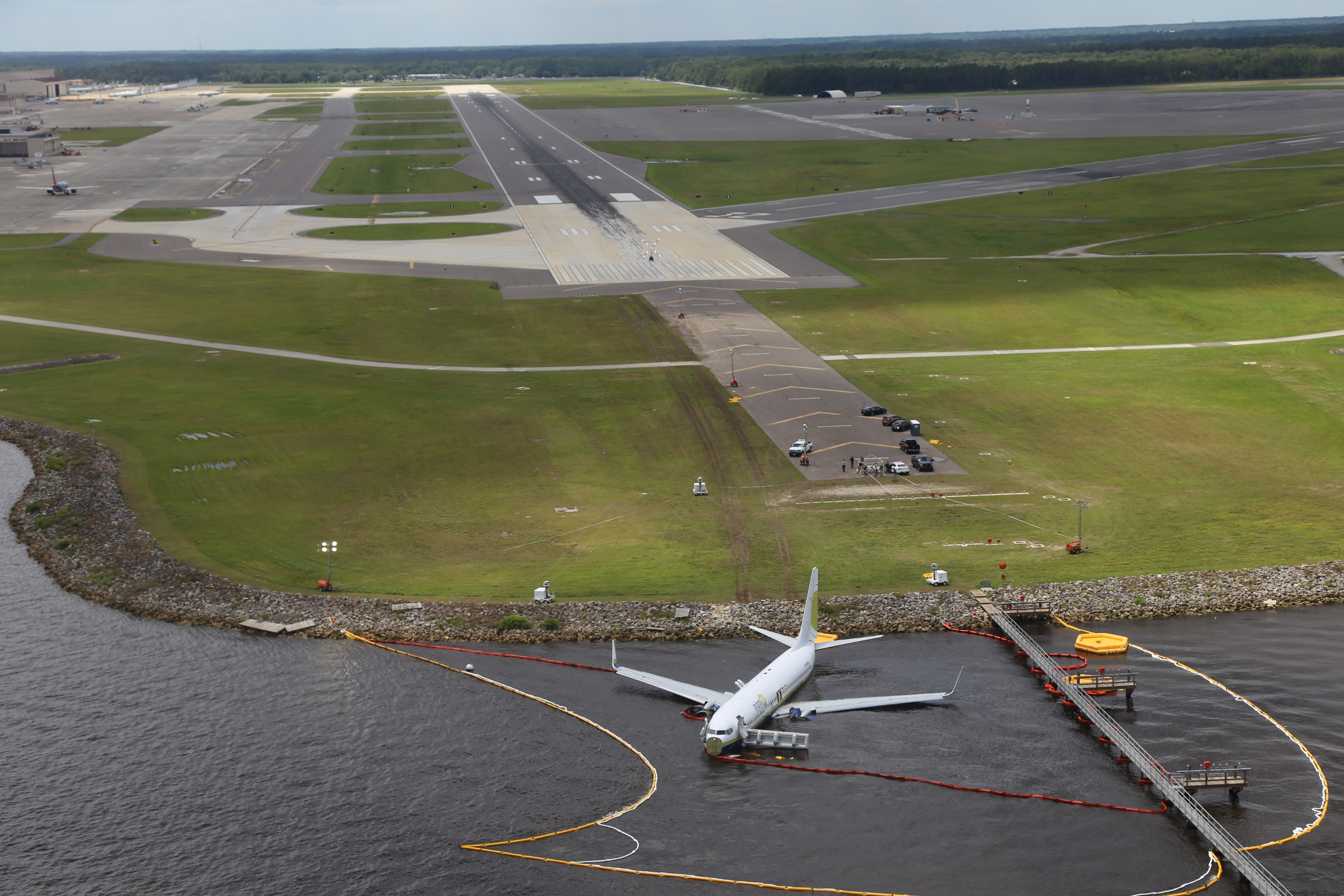 JACKSONVILLE, Florida (May 4, 2019) – The NTSB is investigating the runway overrun of a Miami Air International Boeing 737-800 that overran the runway at Naval Air Station Jacksonville and came to rest in the St. Johns River in Jacksonville, Florida, on May 3, 2019. (NTSB photo by Eric Weiss)